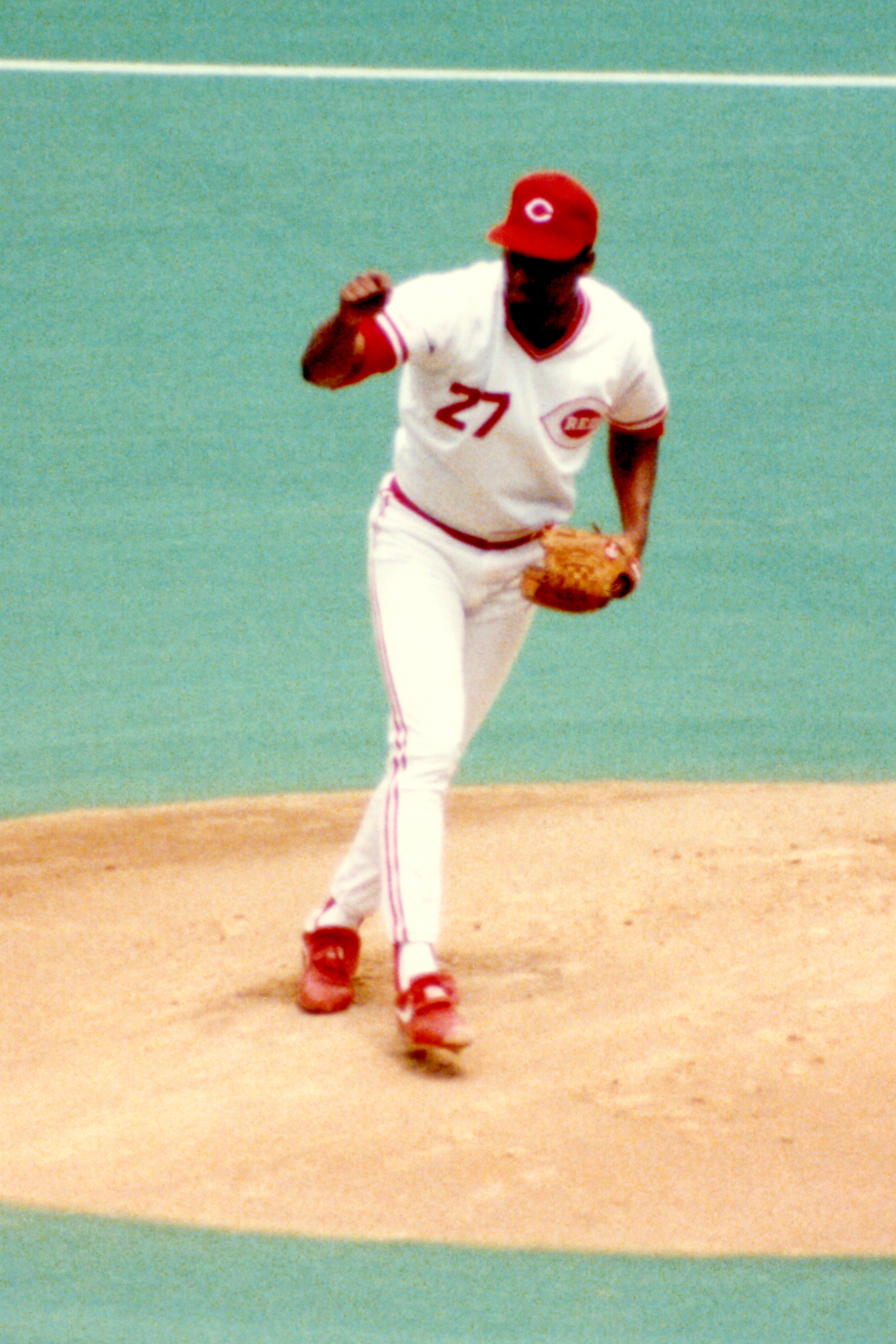 Jose Rijo pitching for the Cincinnati Reds in Riverfront Stadium in 1990